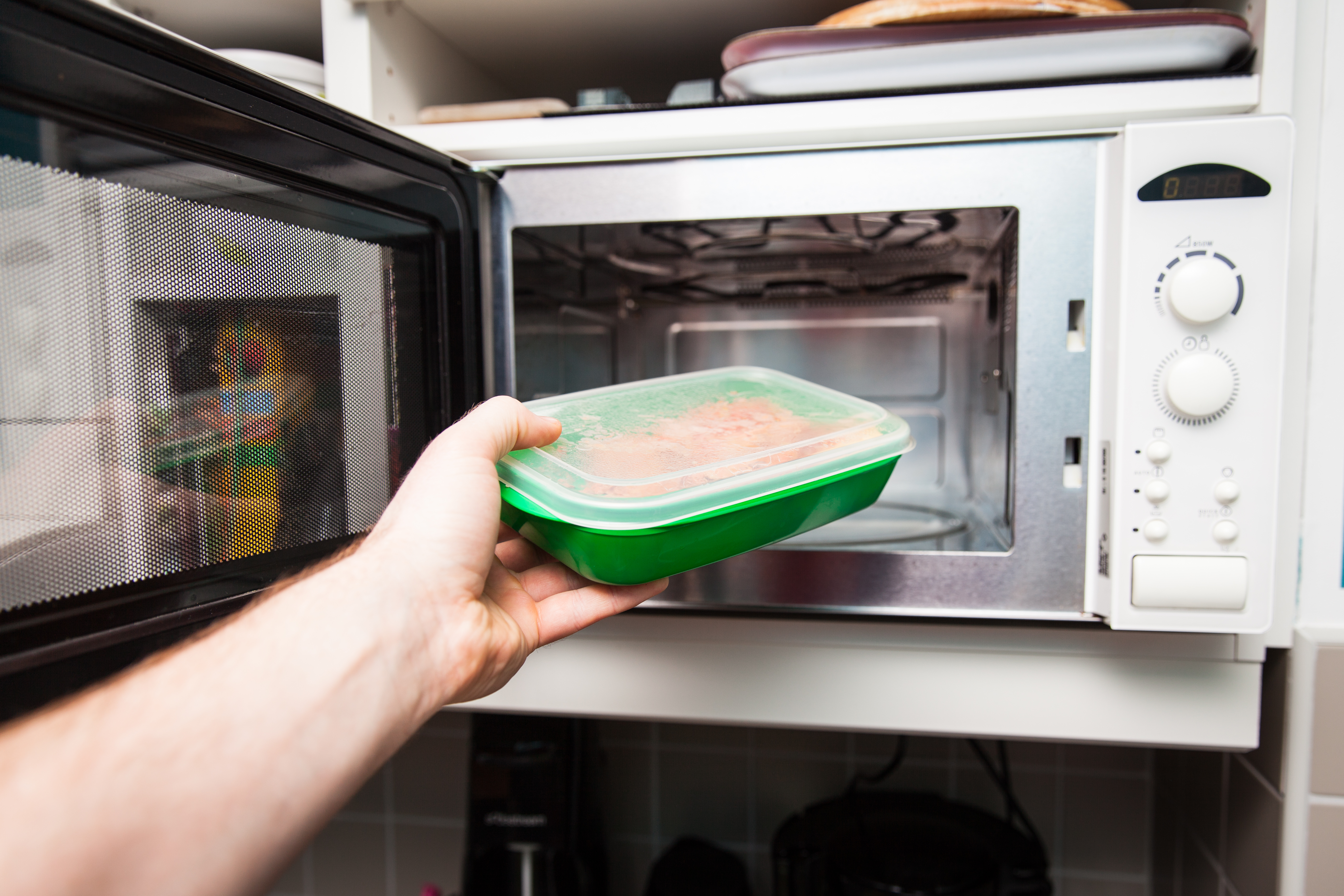 matlåda, mikro, mikrovågsugn